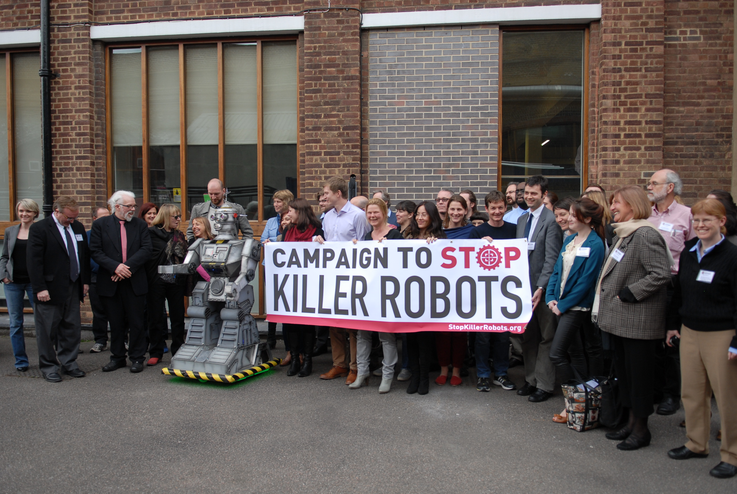 Campaign to Stop Killer Robots meeting 2013